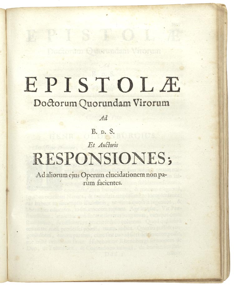 Benedictus de Spinoza: Epistolae - title page, 1677. B.d.S.: Epistolae doctorum quorumdam virorum et Auctoris responsiones ad aliorum eius Operum elucidationem non parum facientes. (Translation: Letters of learned men and not a few answers by the author to explain his other works.